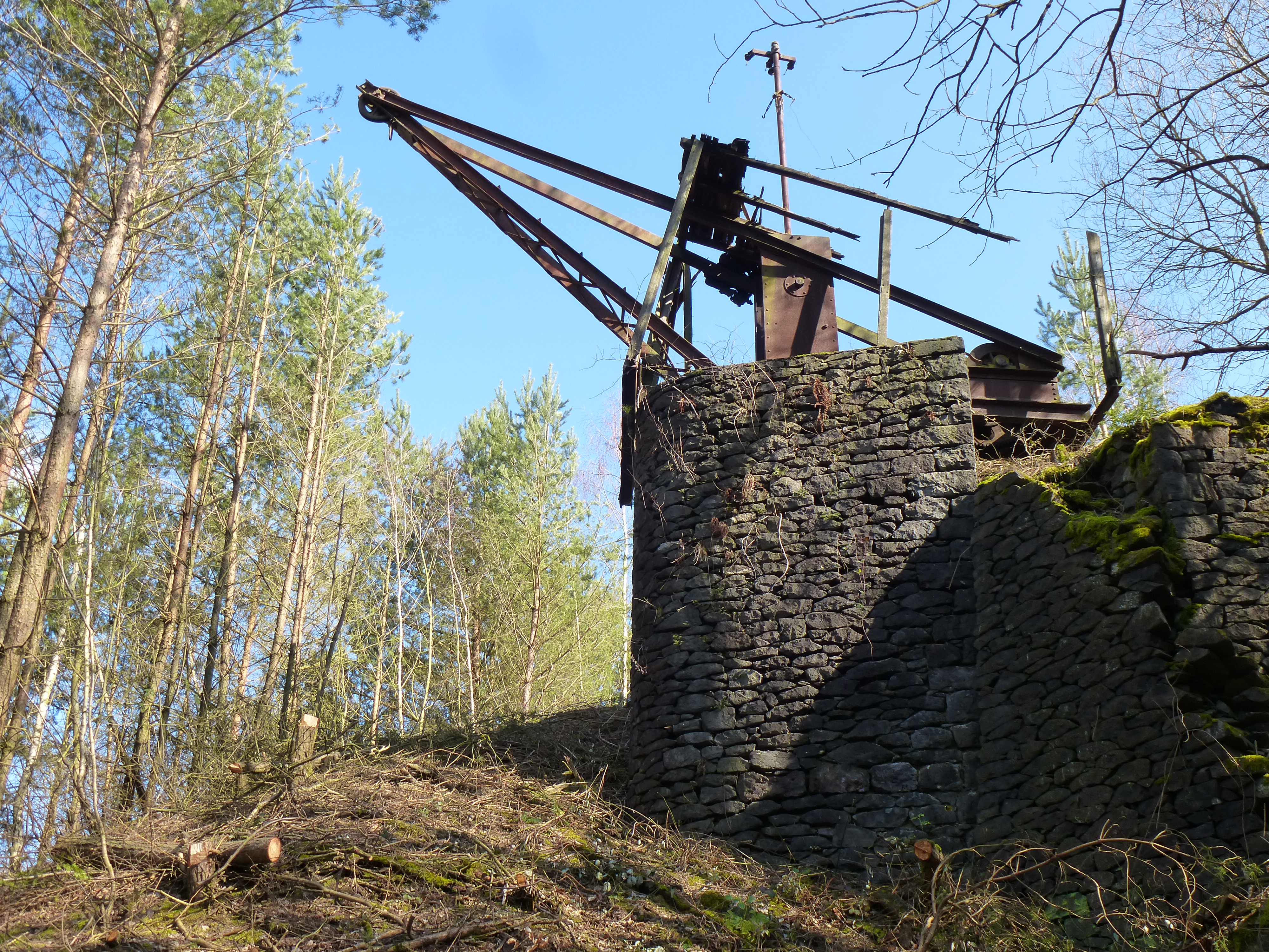 Olf crane at the former basalt mining area Kottenheimer Winfeld between Ettringen and Kottenheim (district Mayen-Koblenz, Rhineland-Palatinate, Germany)